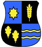 Coat of arms of Makád, Hungary